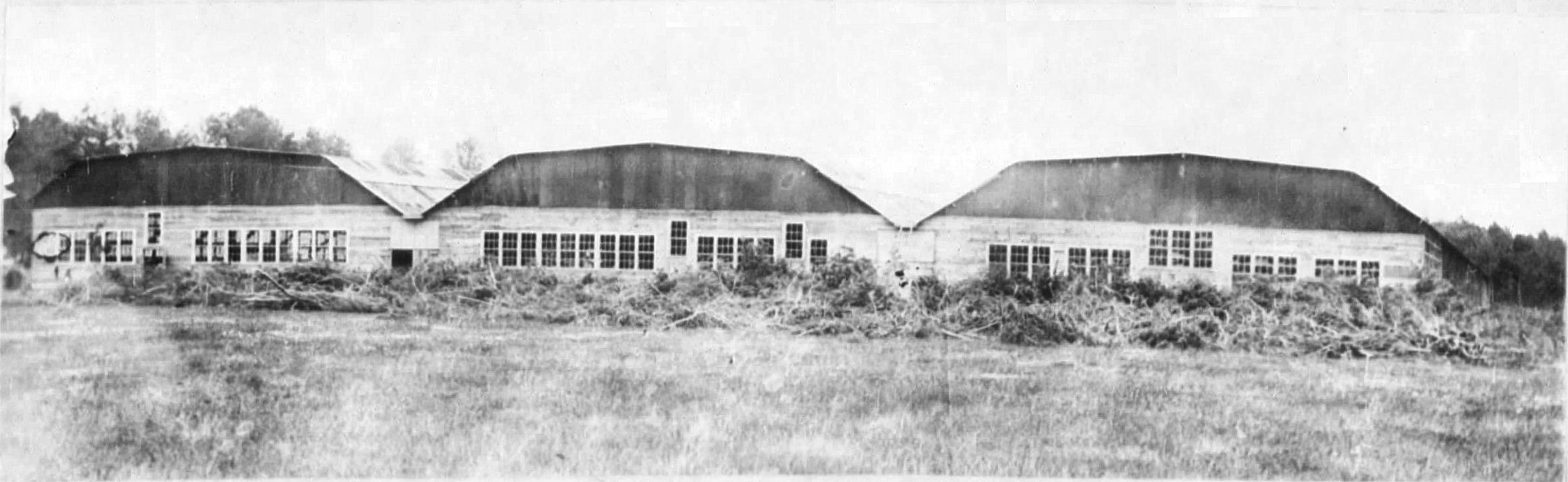 Romorantin Aerodrome - Building 2-A DH-4 Salvage and Repair